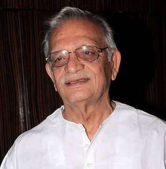 Gulzar at the launch of Jagjit singh's album Tera Bayaan Ghalib